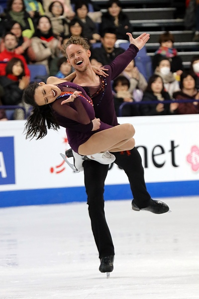 Madison Chock and Evan Bates at the 2017 World Championships